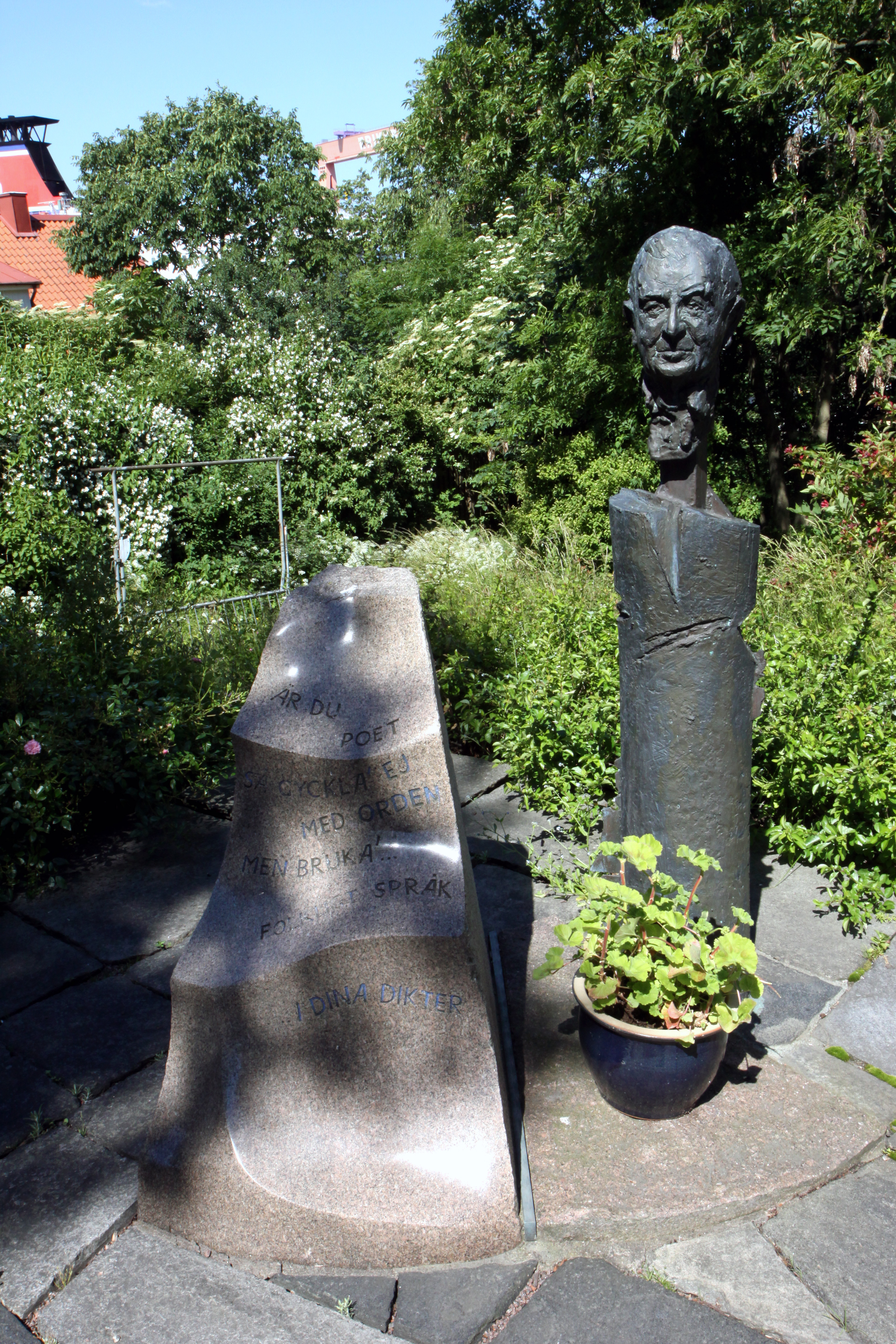 Statue of Evert Taube outside Taubehuset in Gothenburg, Sweden